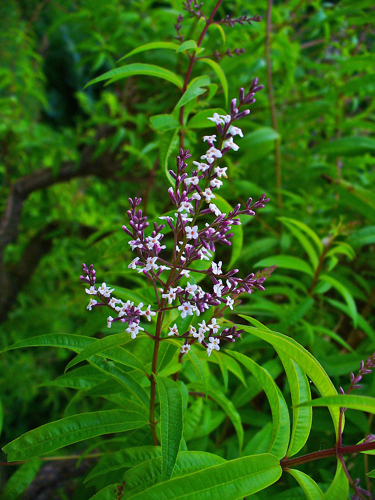 Aloysia citriodora, Verbenaceae, Lemon Verbena, Lemon Beebrush, inflorescence; Botanical Garden Karlsruhe, Germany.